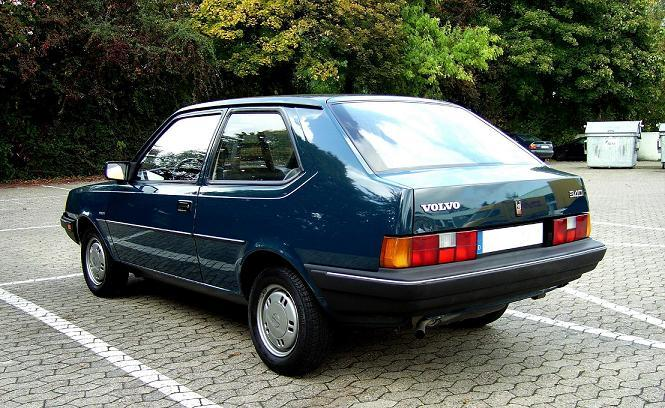 Volvo 340 -1989- rear